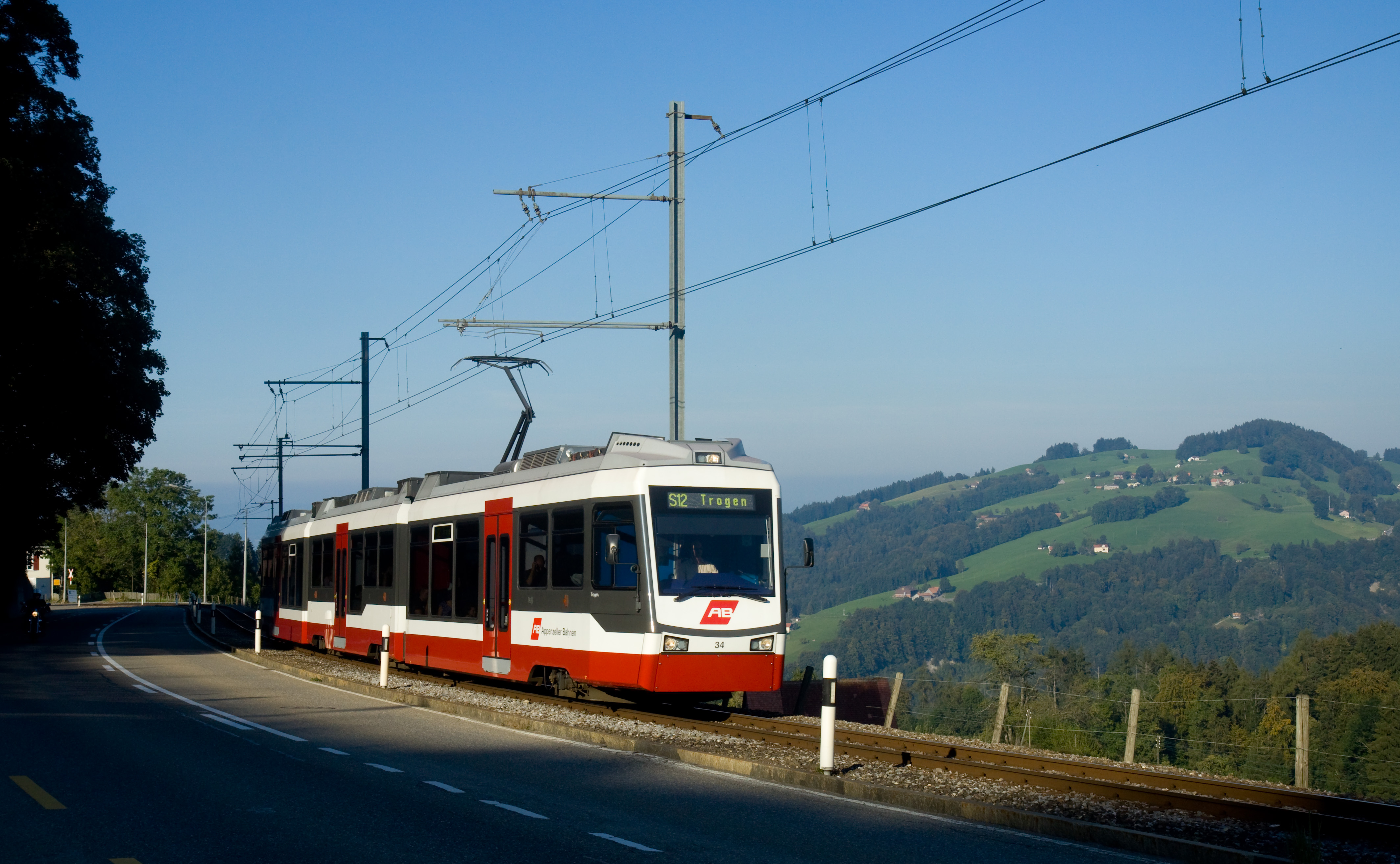 Be 4/8 of Appenzeller Bahnen on the Trogenerbahn line, just before arriving at the "Schwarzer Bären" ("black bear") stop, where it will pass the oncoming train.